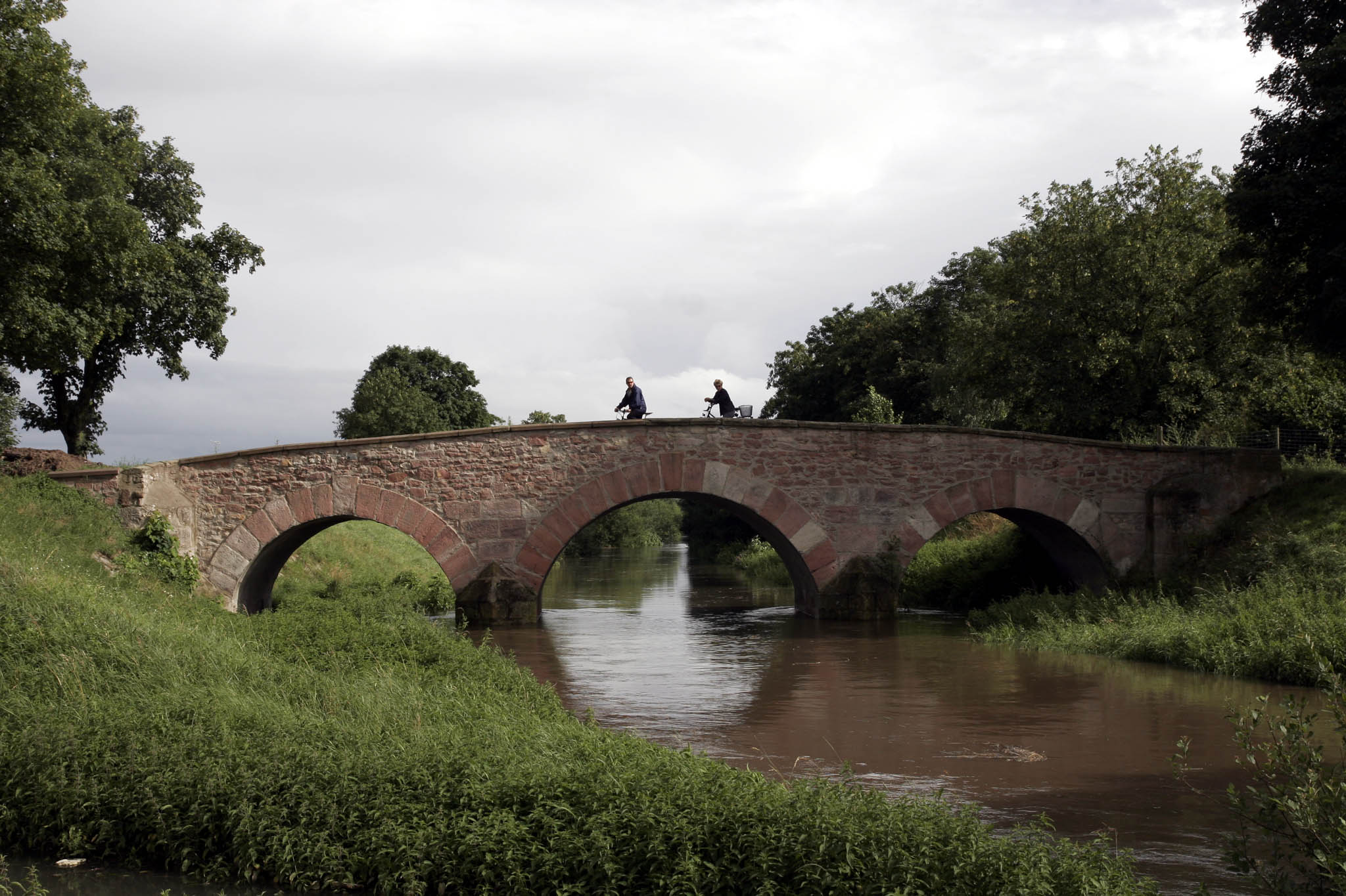 Wattenheimer Brücke (Wattenheim Bridge) in Lorsch (Hesse, Germany)